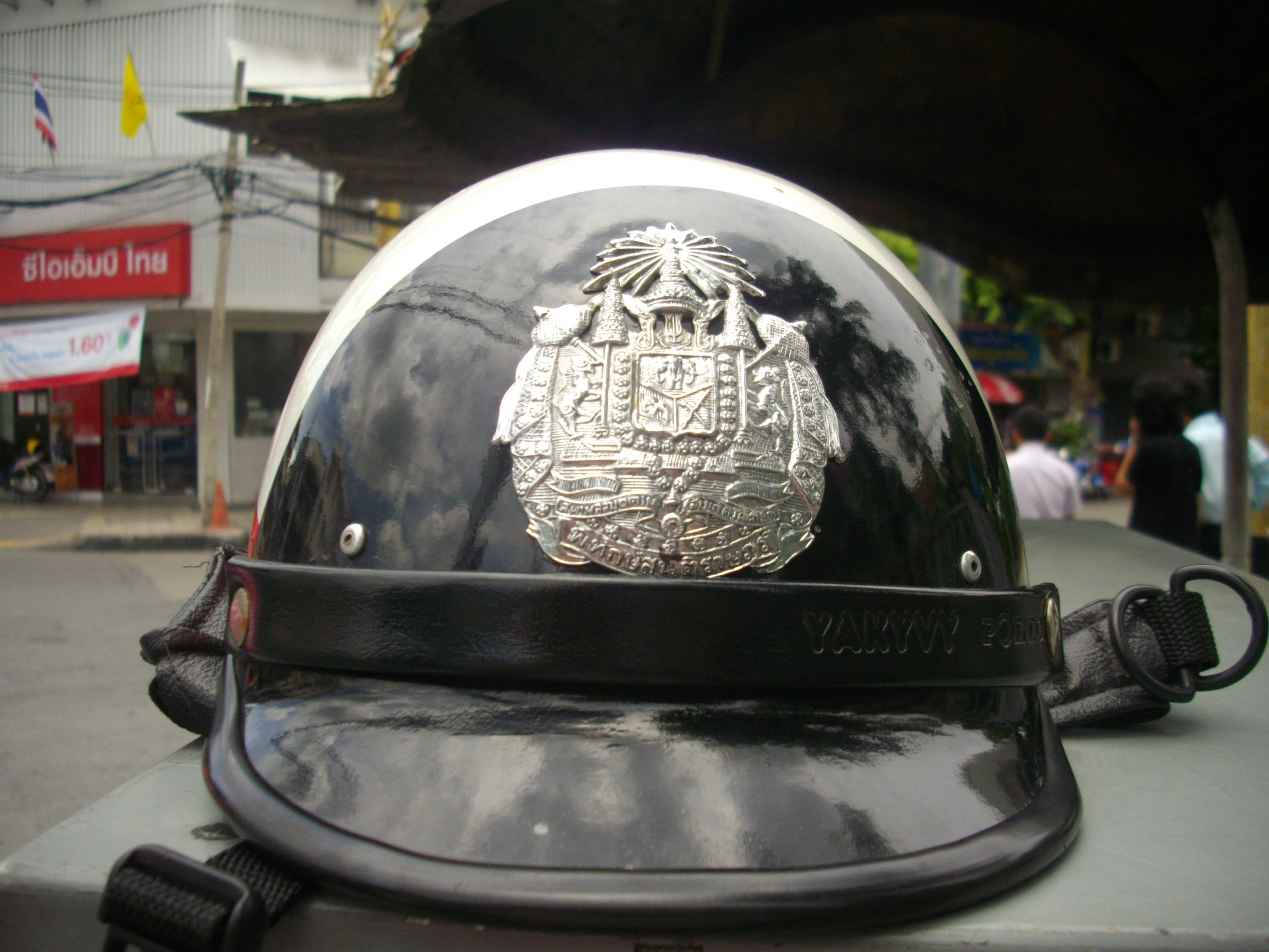 A helmet for traffic police in Thailand. This photo was taken by uploader at Bangkok, August 31, 2010.